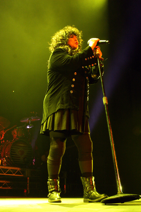 Heart's first Australian tour 2011 (with Def Leppard)